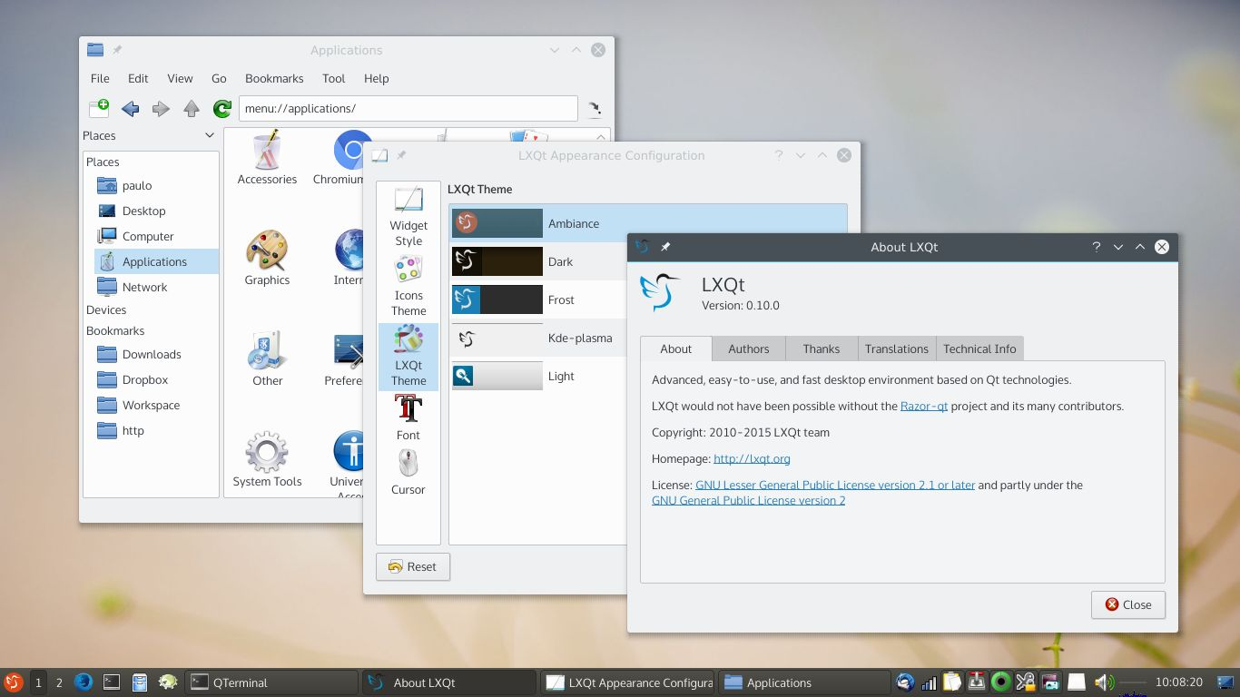 Screenshot of LXQt 0.10 with the Ambiance theme